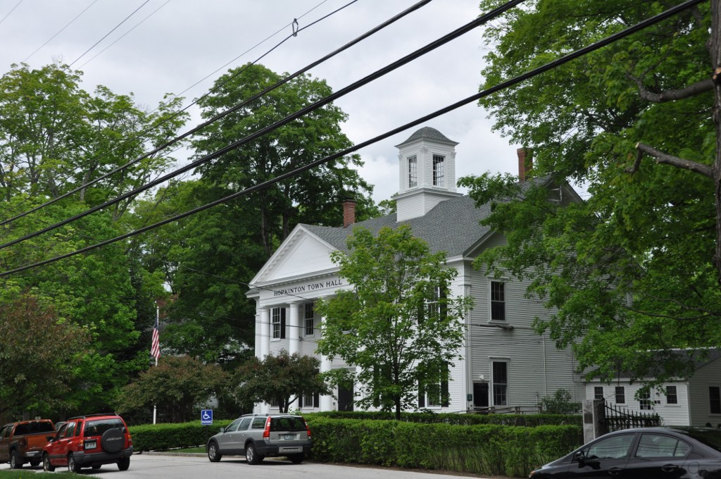 The town hall of Hopkinton, New Hampshire.